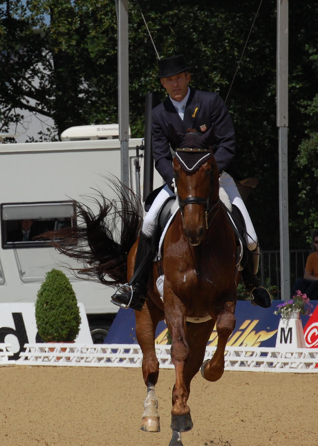 US-american dressage rider Guenter Seidel with U II, Grand Prix de Dressage at the CDI 4* German Dressage Derby